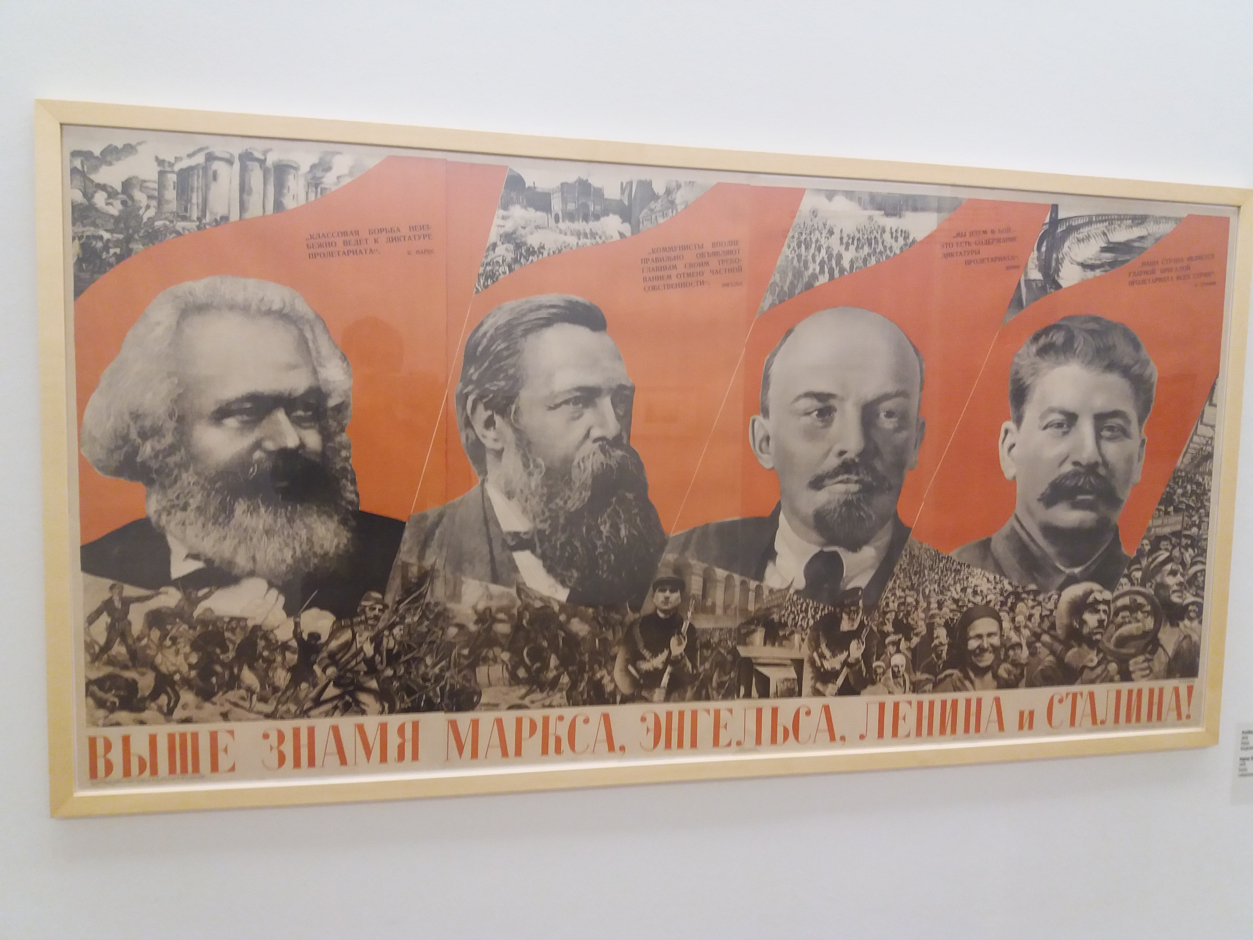 Gustavs Klucis. Poster raise Higher the Flag of Marx, Engels, Lenin and Stalin! (1933). Lithograph on paper. 87 x 175 cm. LNMA inv. no. VMM Z-8769.